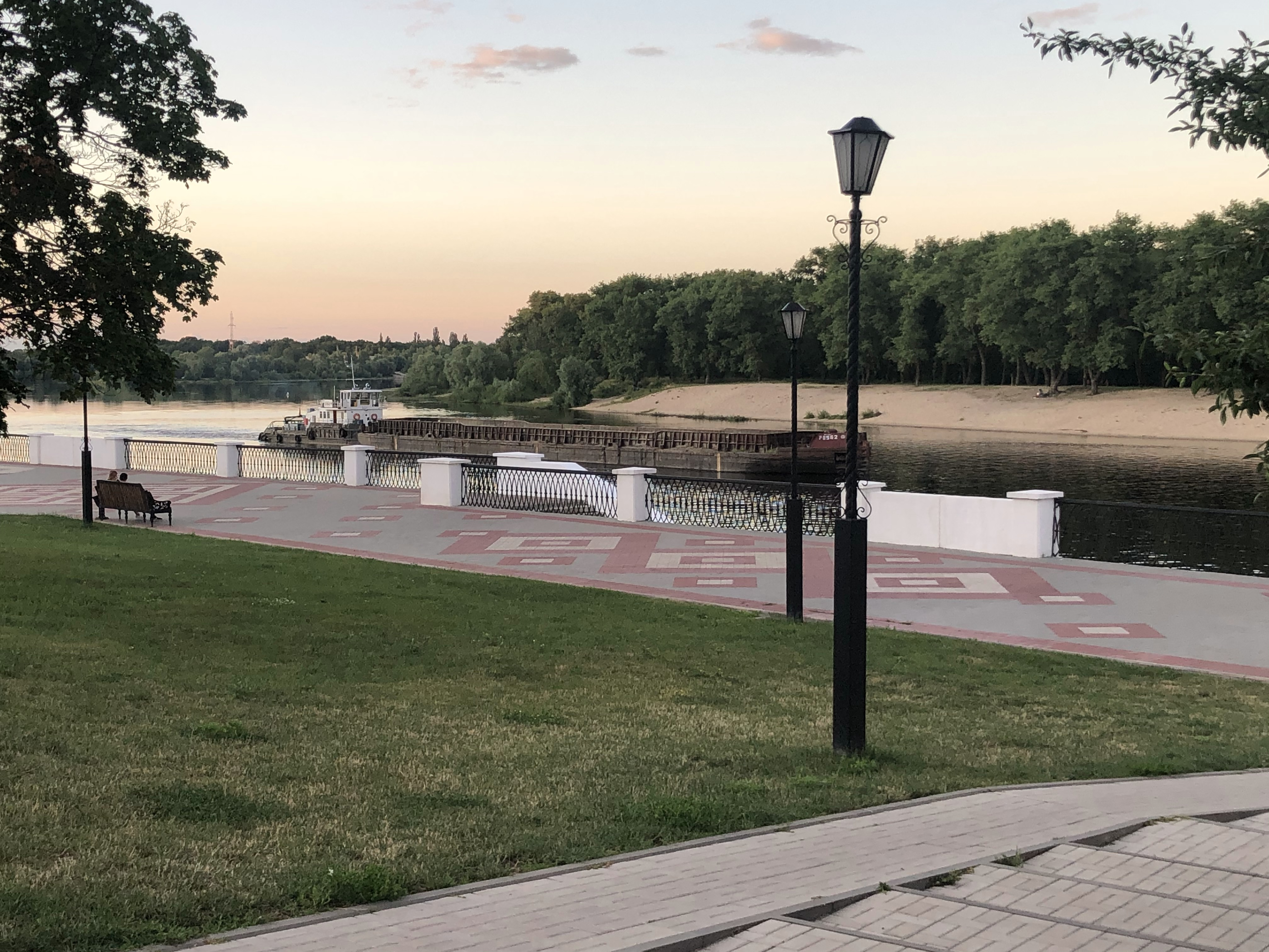 Tugboat, Gomel July 2020